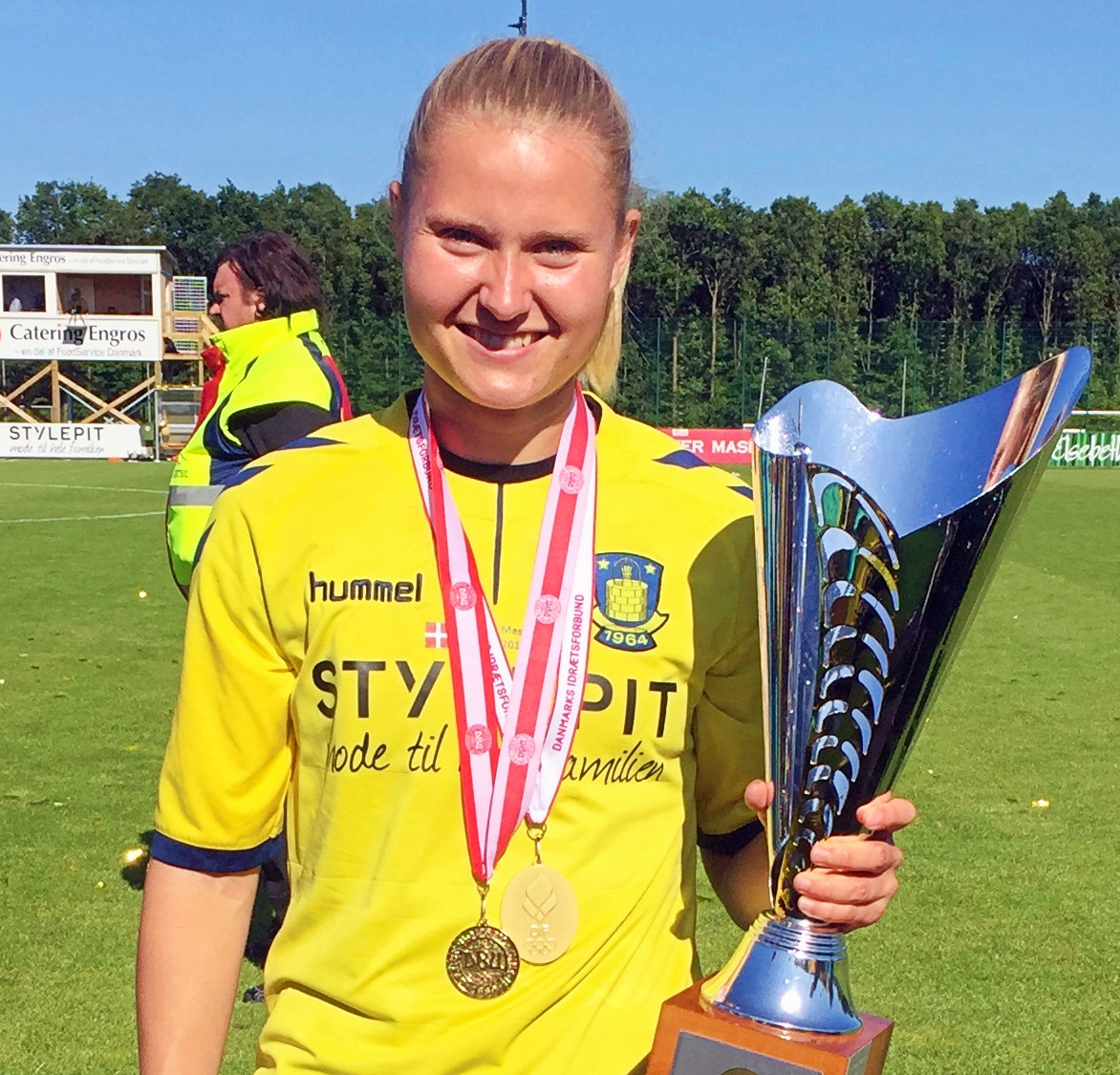 Image from League final